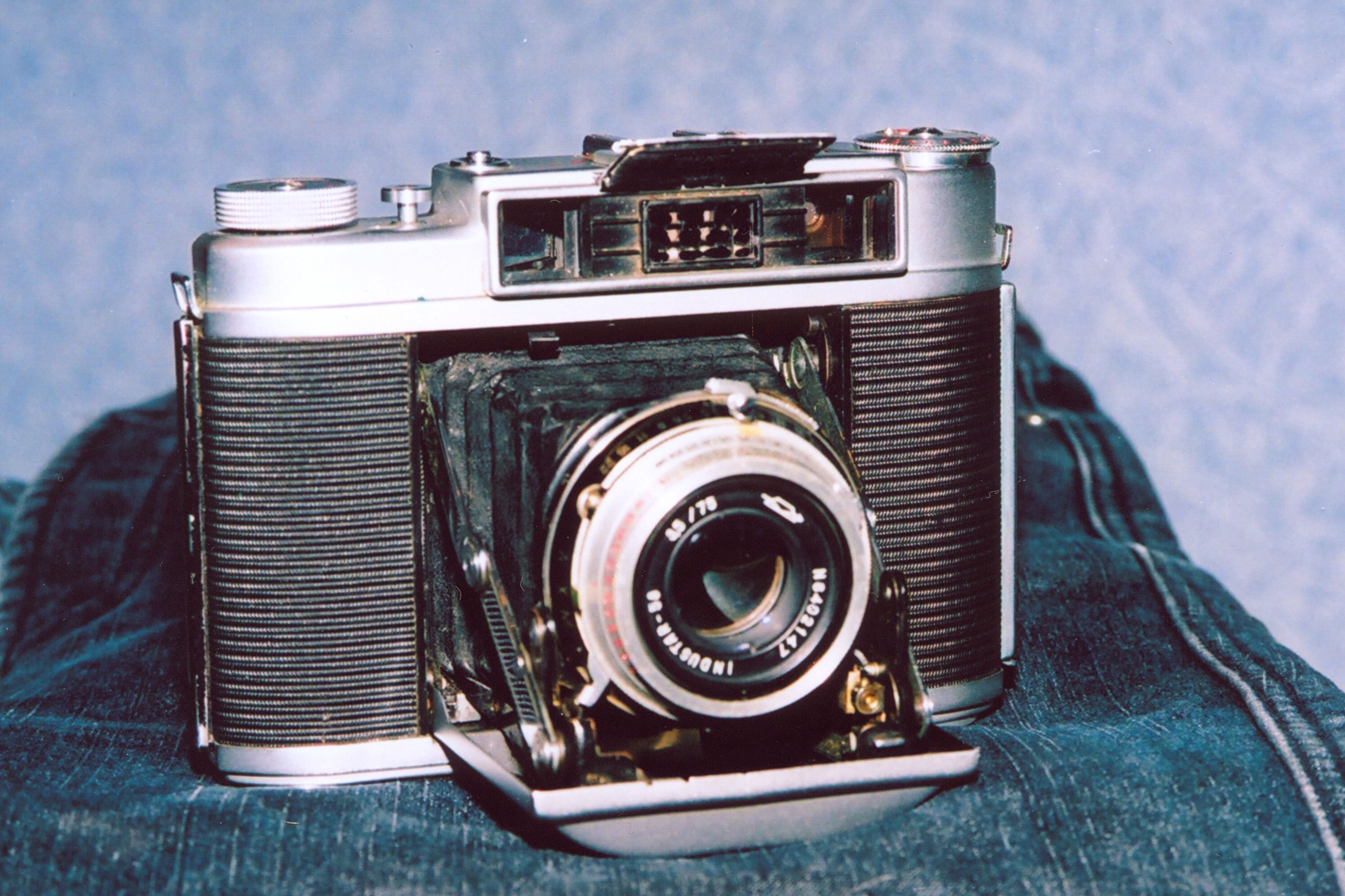 Iskra 2